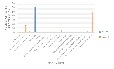 Occupational Order of the parish of Mettingham's Adult Population as reported by the national census in 1881